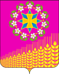 Kuschevskoe (Krasnodar krai), coat of arms